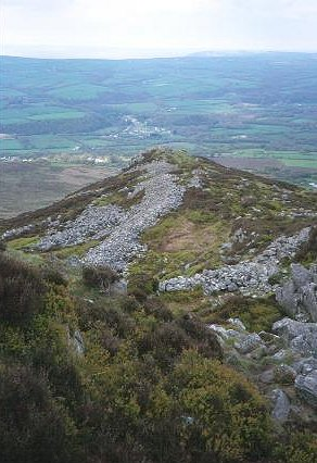 Mynydd Carningli. Remains of the hillfort wall on this sharp peak.